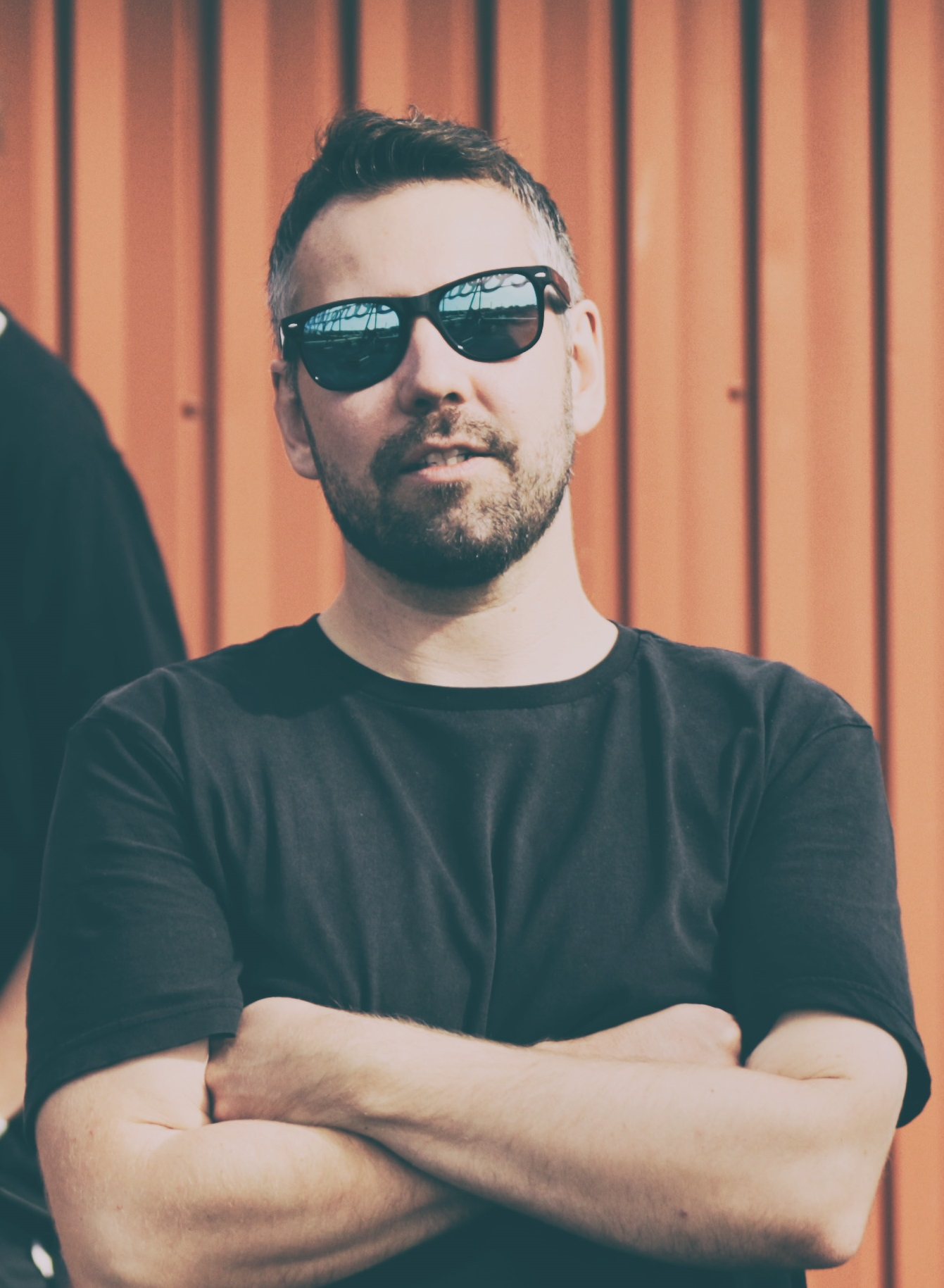 Jani Nivala, Radio 957